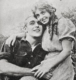 Wallace Reid and Dorothy Davenport on the set of His Only Son (1912) - publicity still (cropped).